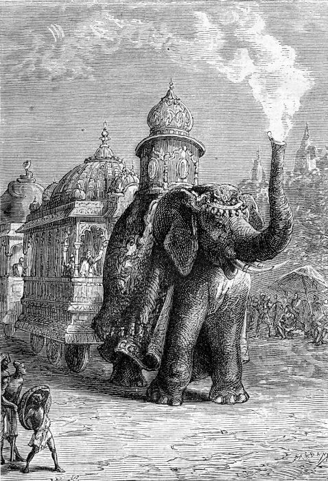 An illustration from Jules Verne's novel "The Steam House" drawn by Léon Benett.